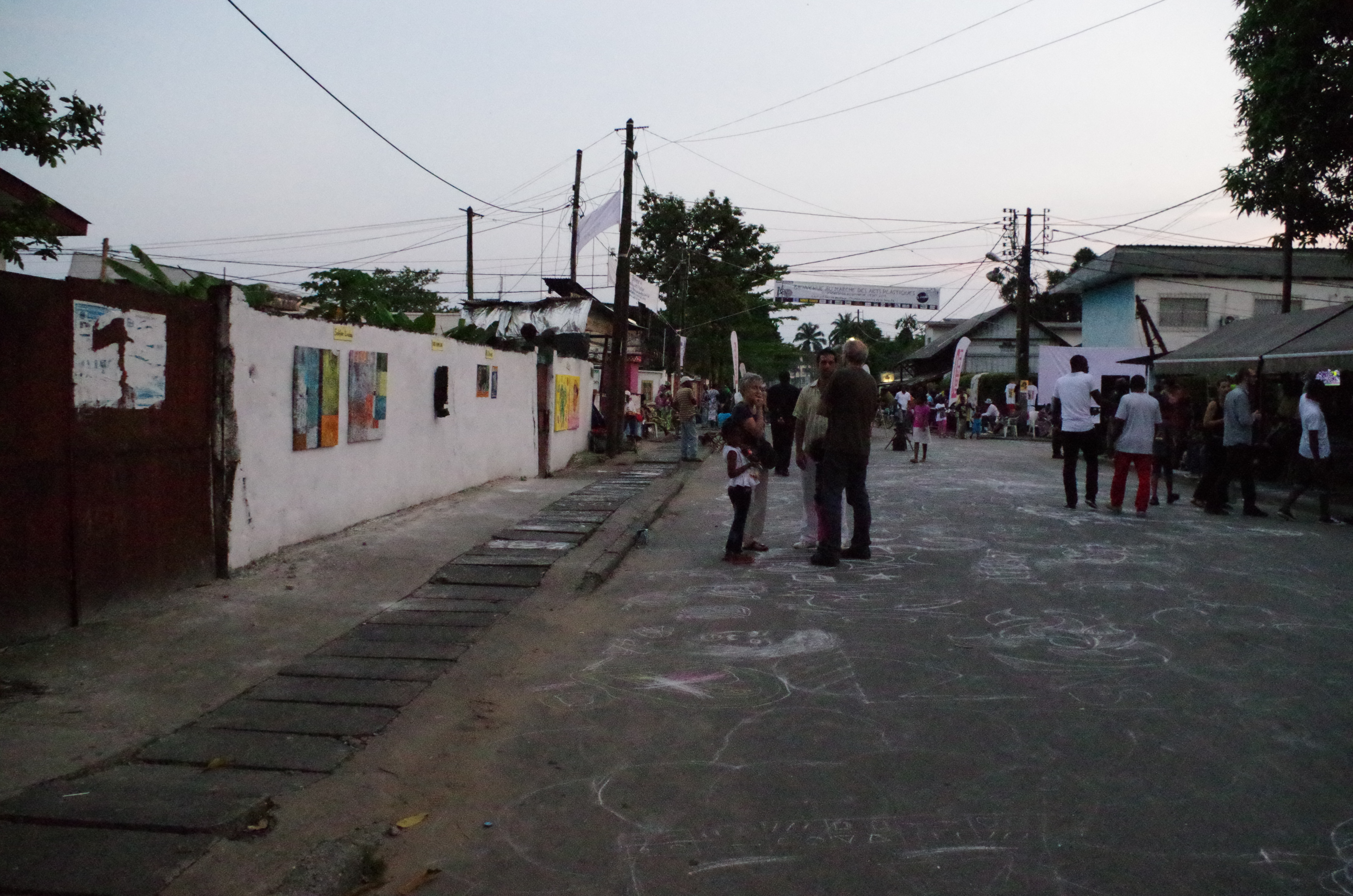 Marché des arts plastiques de Bali during the SUD Salon Urbain de Douala 2013.